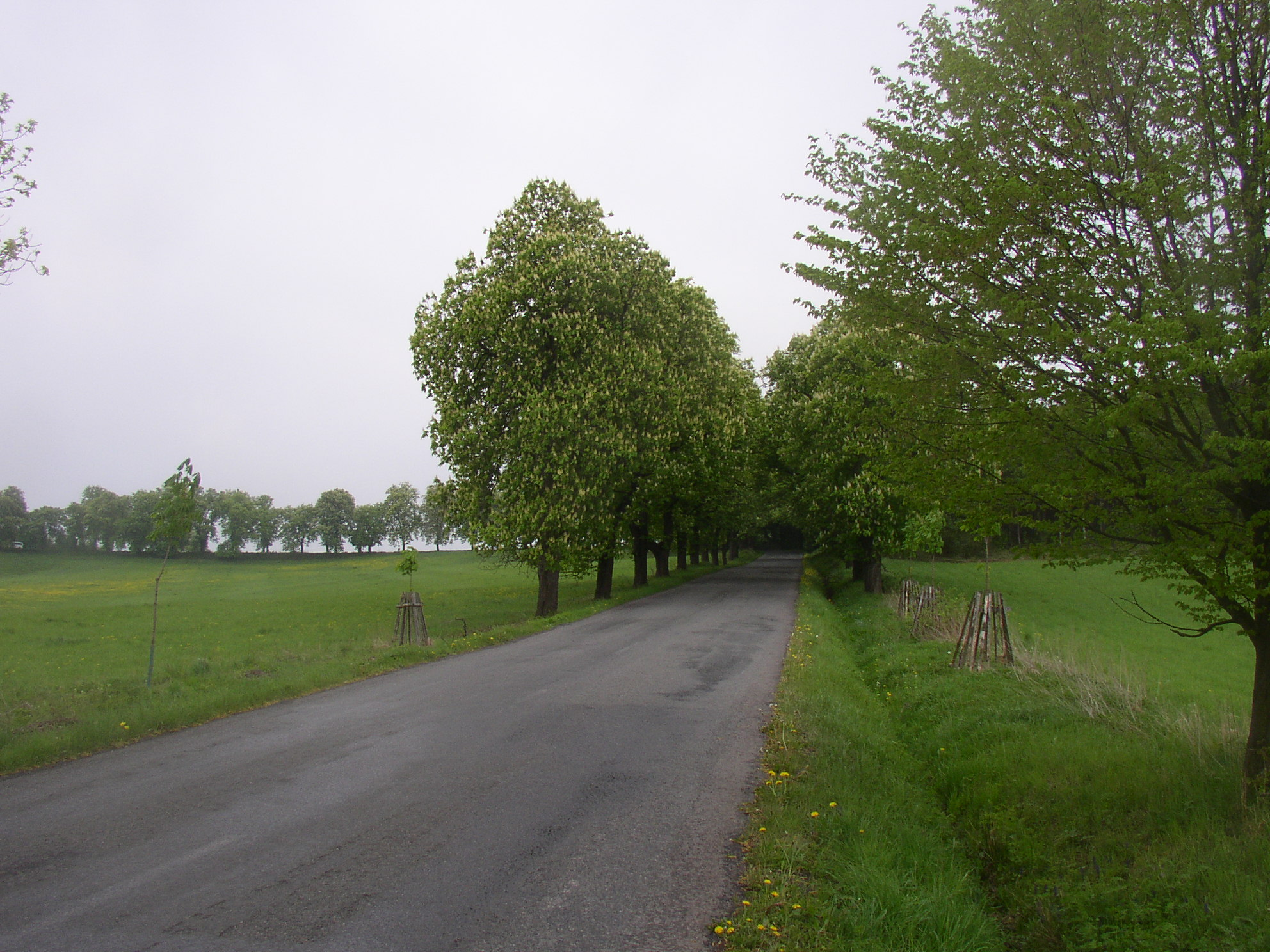 Ploskovská kaštanka (Ploskov Conker Avenue), a large avenue of about 400 horse-chestnut (Aesculus hippocastanum) and small-leaved lime (Tilia cordata) trees in vicinity of Lhota village, Kladno District, Czech Republic.